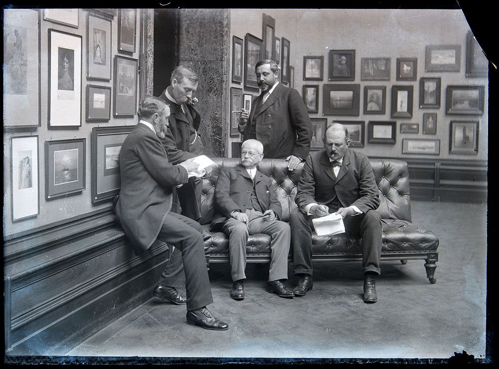 1902 exhibition judging panel of the Royal Photographic Society. Standing: William Cooke (on his back), unidentified, John Charles Stephen Mummery; seated: unidentified, Dr. Peter Henry Emerson. Taken on the same day than File:The judging panel for the RPS Exhibition (8385712355).jpg Large sized glass plate negative. Dated 1902.